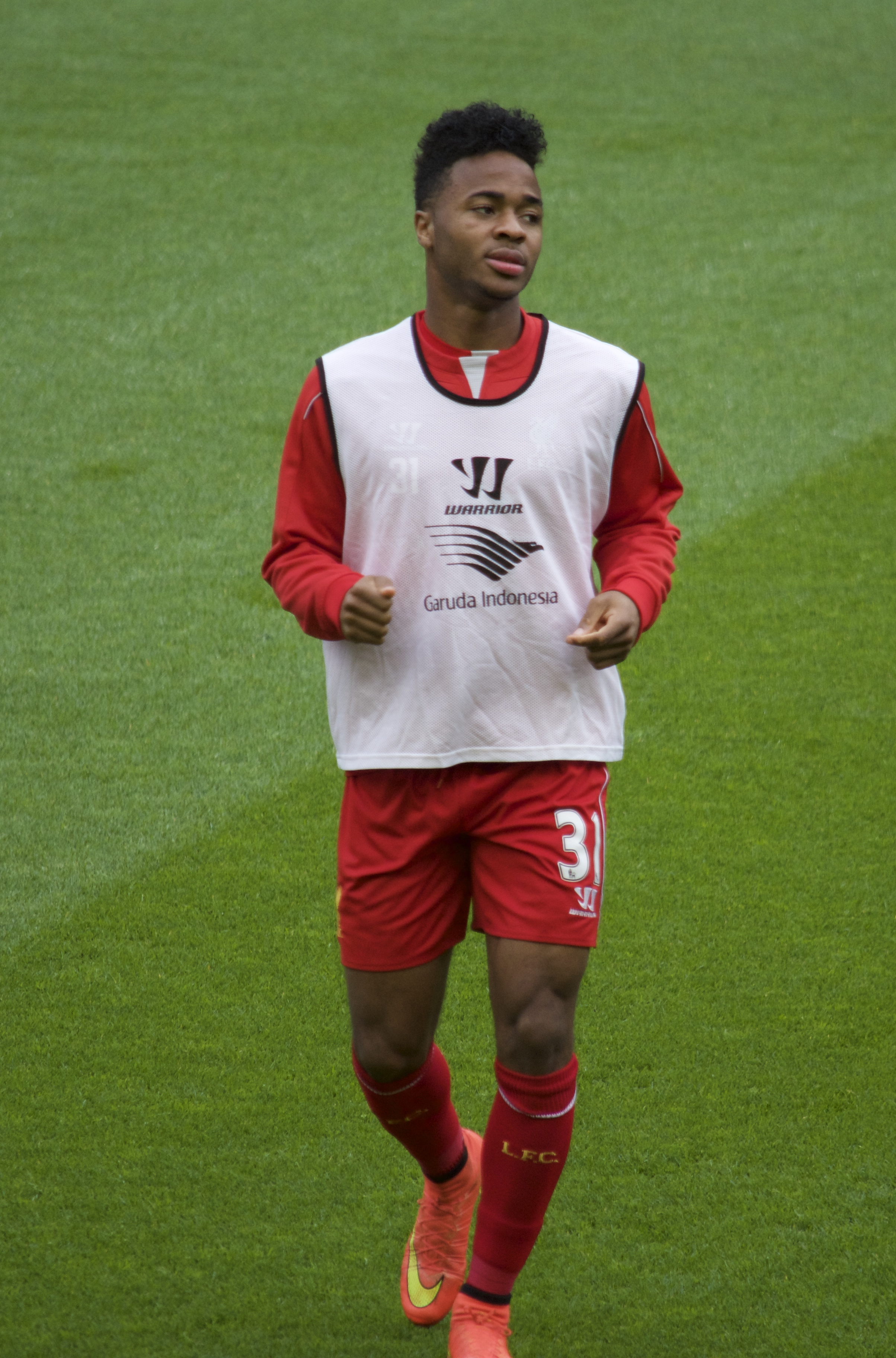 Liverpool v Hull City 25-10-14